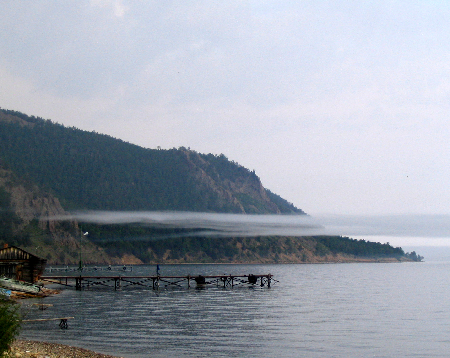 Lake Baikal at Bolshoi Koty, facing North